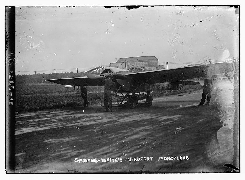 Bain News Service,, publisher. Claude Grahame White's Nieuport IV circa 1912 [between ca. 1910 and ca. 1915] 1 negative : glass ; 5 x 7 in. or smaller. Notes: Title from data provided by the Bain News Service on the negative. Full name in title from Merriam-Webster's biographical dictionary, 1995. Photo shows English aviator Claude Grahame-White (1879-1959). (Source: Flickr Commons project, 2009) Forms part of: George Grantham Bain Collection (Library of Congress). Subjects: Airplanes Format: Glass negatives. Repository: Library of Congress, Prints and Photographs Division, Washington, D.C. 20540 USA, General information about the Bain Collection is available at Persistent URL: Call Number: LC-B2- 2265-12 Comments and faves